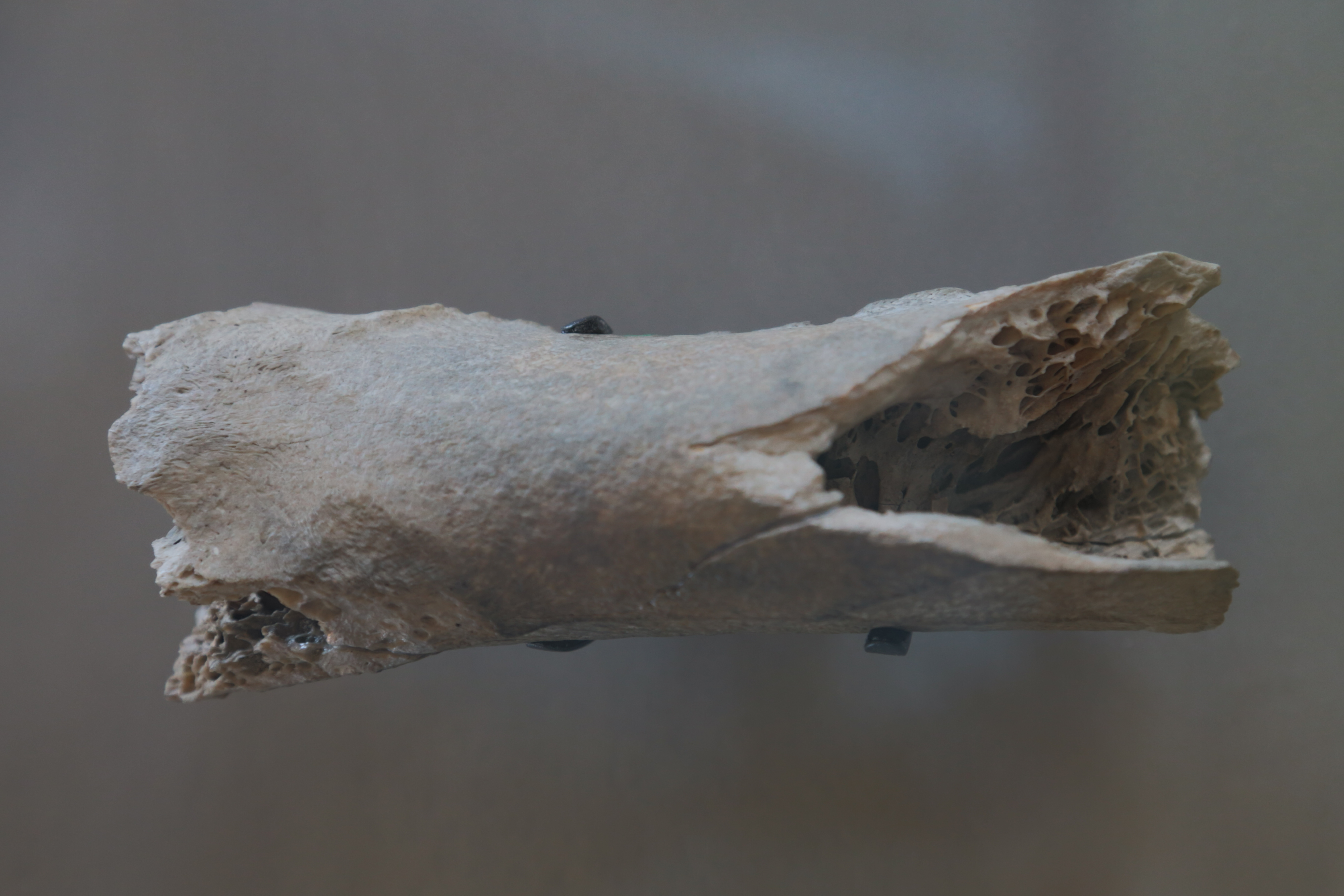 Natural History Museum, London, moa bone fragment